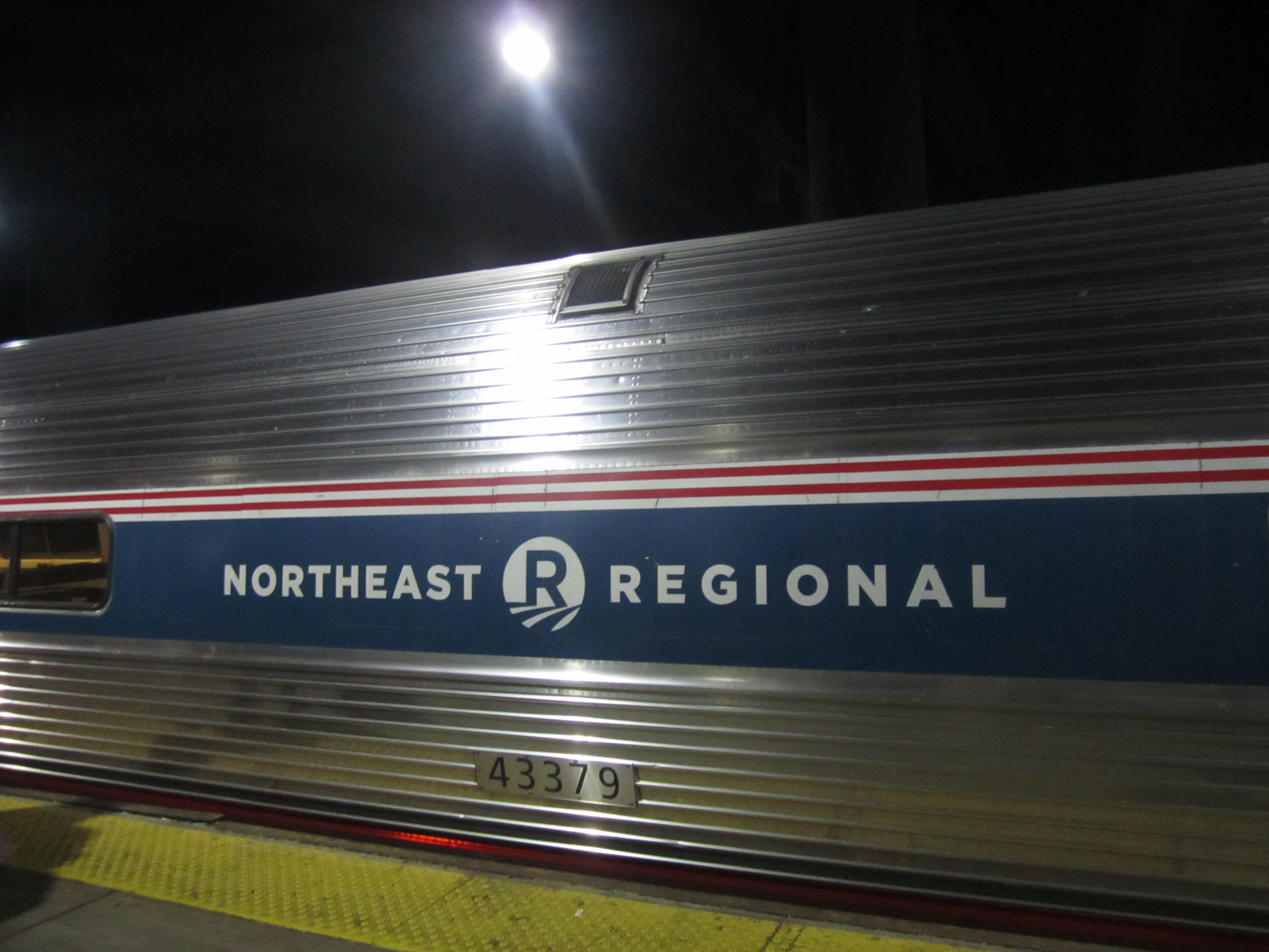 A cafe car on a Washington-bound Northeast Regional at New York Penn Station in July 2011